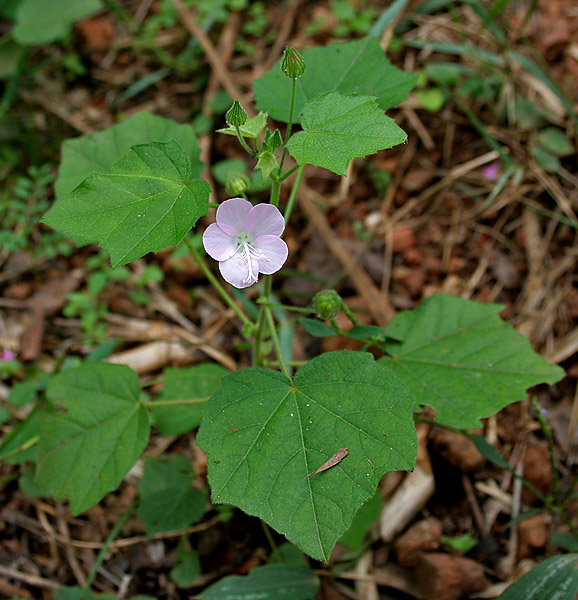 Pavonia odorata in Talakona forest, in Chittoor District of Andhra Pradesh, India.